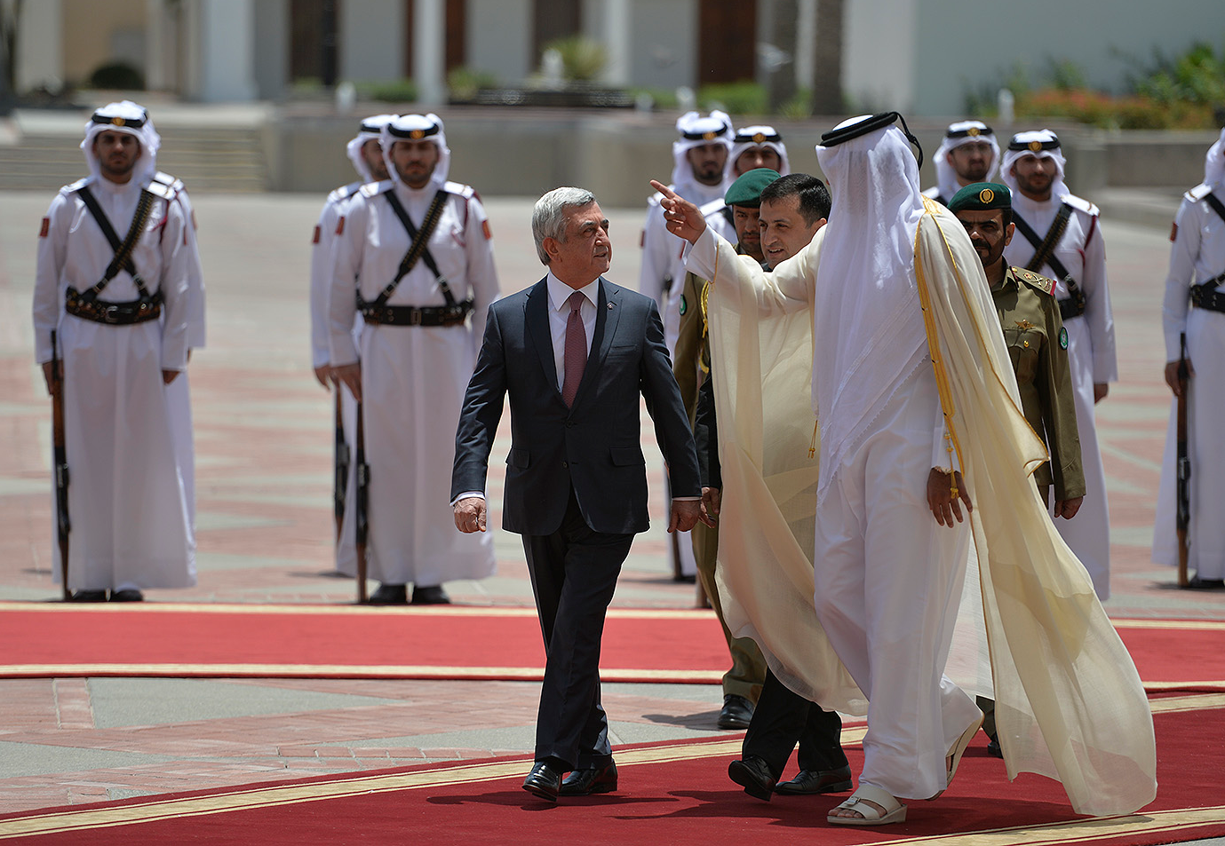 Presidenet of Armenia Serzh Sargsyan in Qatar, Doha